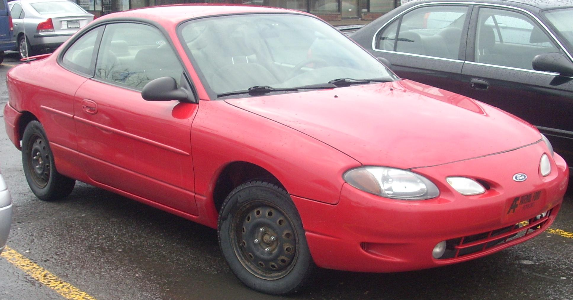 Ford ZX2 photographed in Montreal, Quebec, Canada.